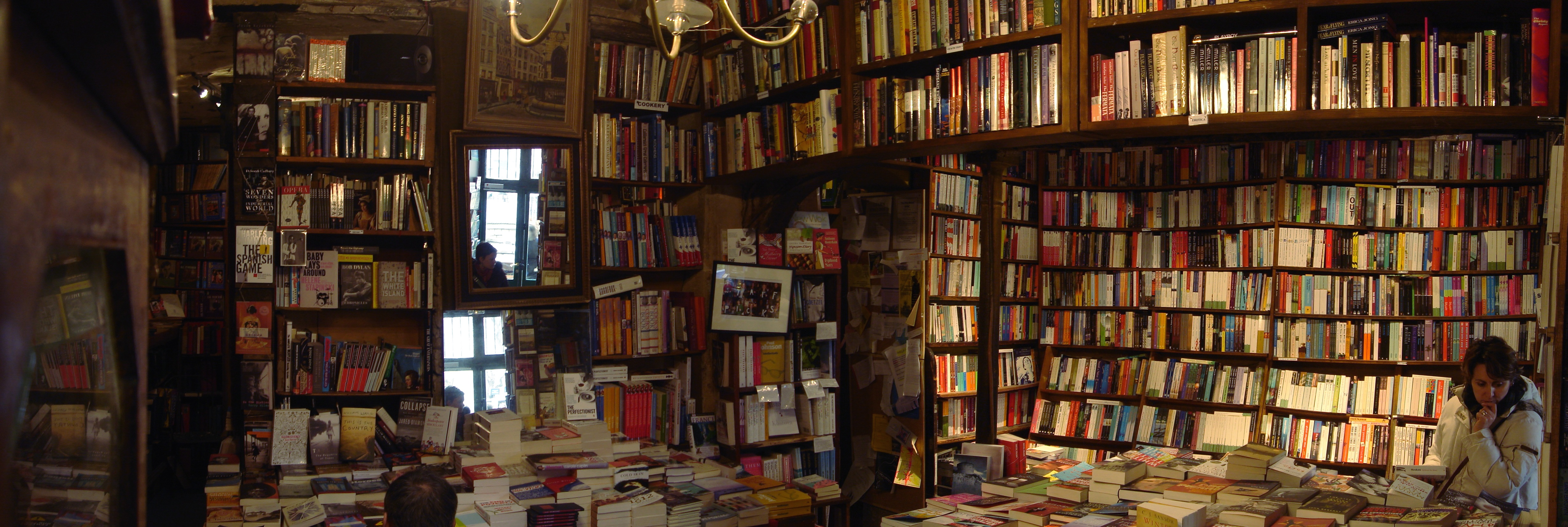 Interior of Shakespeare and Company in Paris.